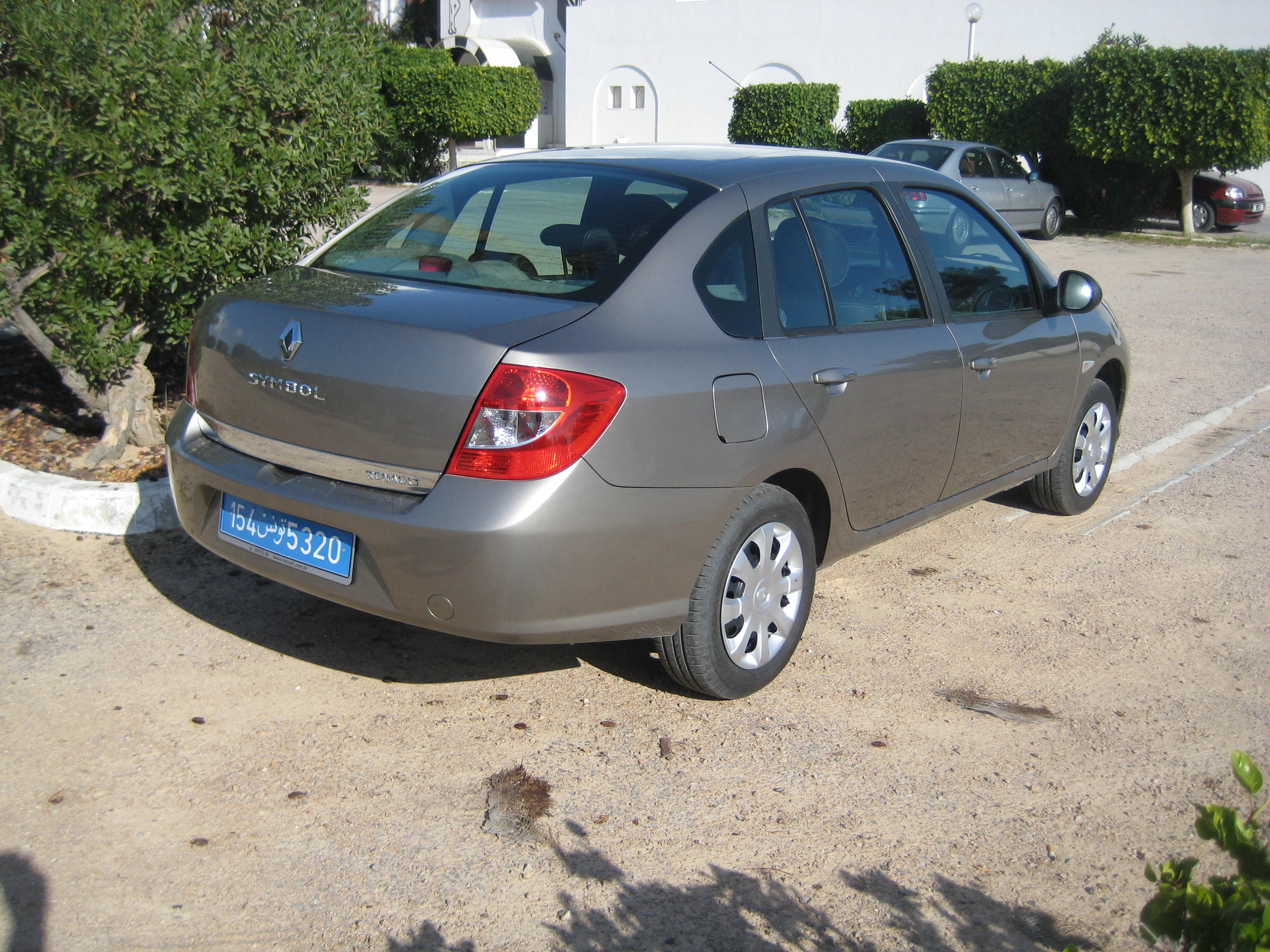 Renault Symbol 2 in Tunesia